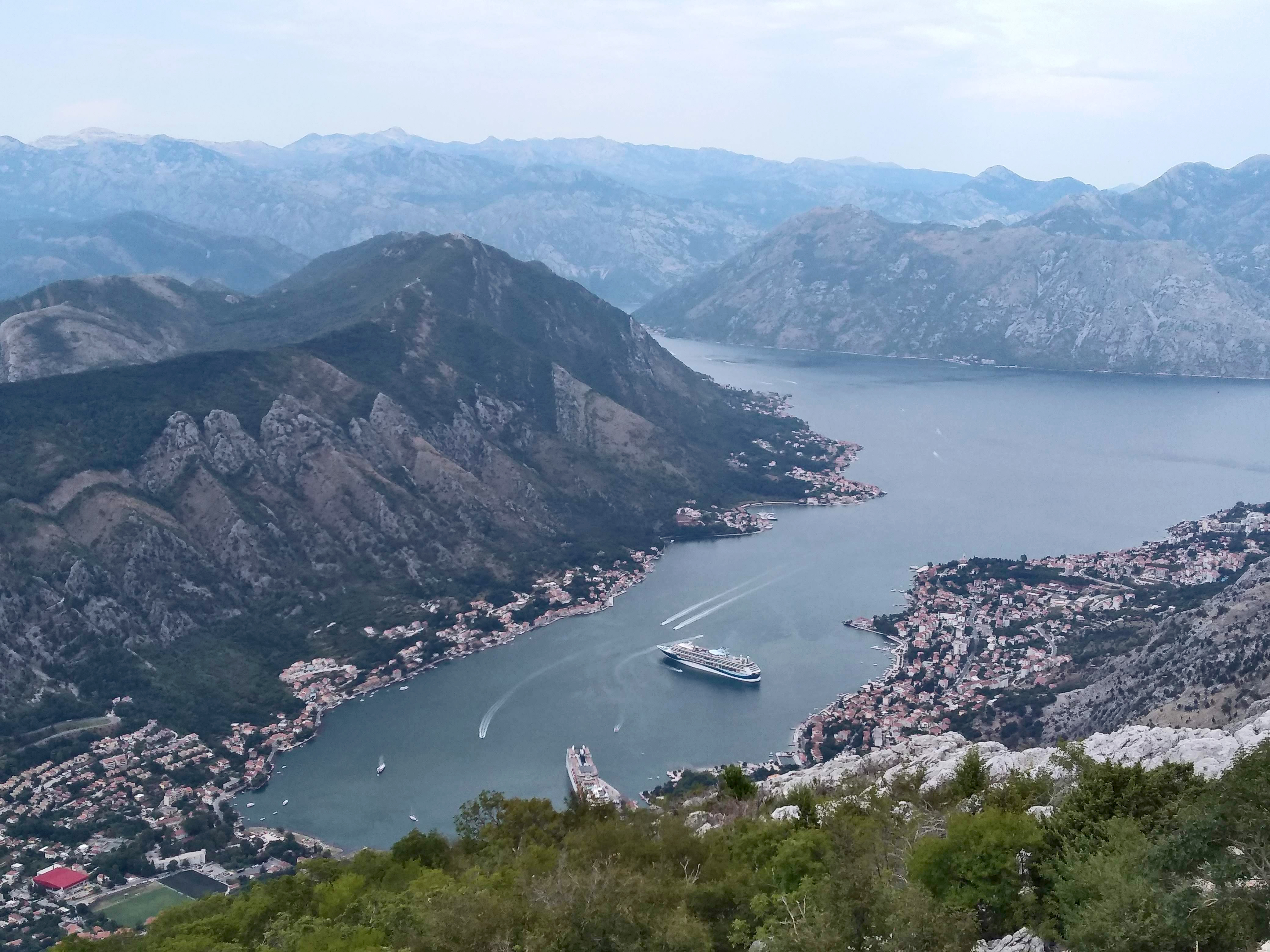 Cruise ship in the Bay of Kotor